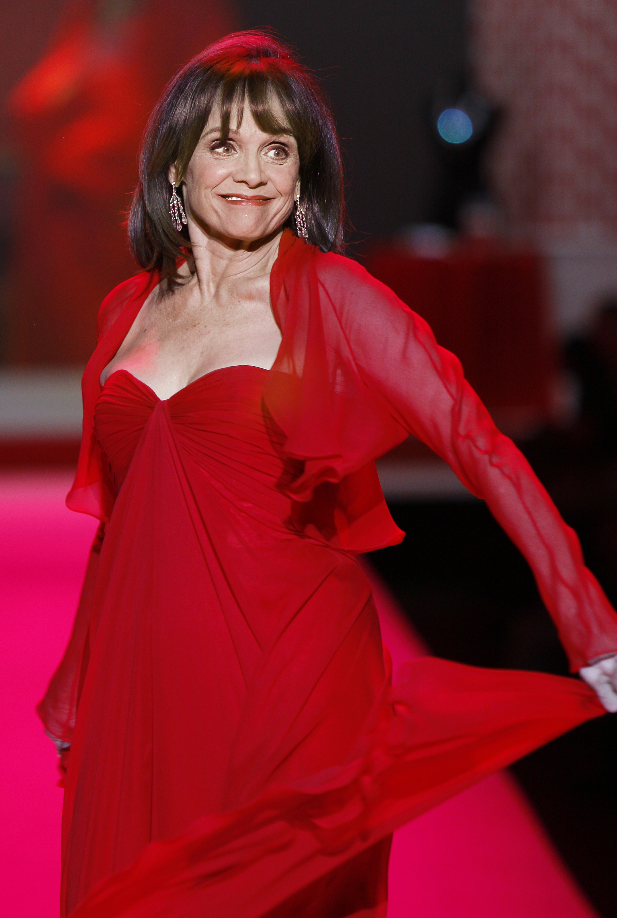 Valerie Harper in Pamella Roland at The Heart Truth's Red Dress Collection 2010